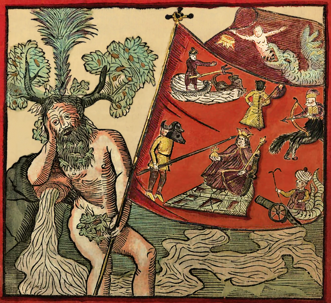 Frontispiece of the 1607 published epic "Chorągiew Wandalinowa" (translated The flag of Wandalin ) by Jan Jurkowski. The flag shows the Polish national allegory Polonia, which is threatened by its opponents: a Swede with a tricorn, a Muscovite with a battle ax, a Tatar archer, and finally a Turkish gunner